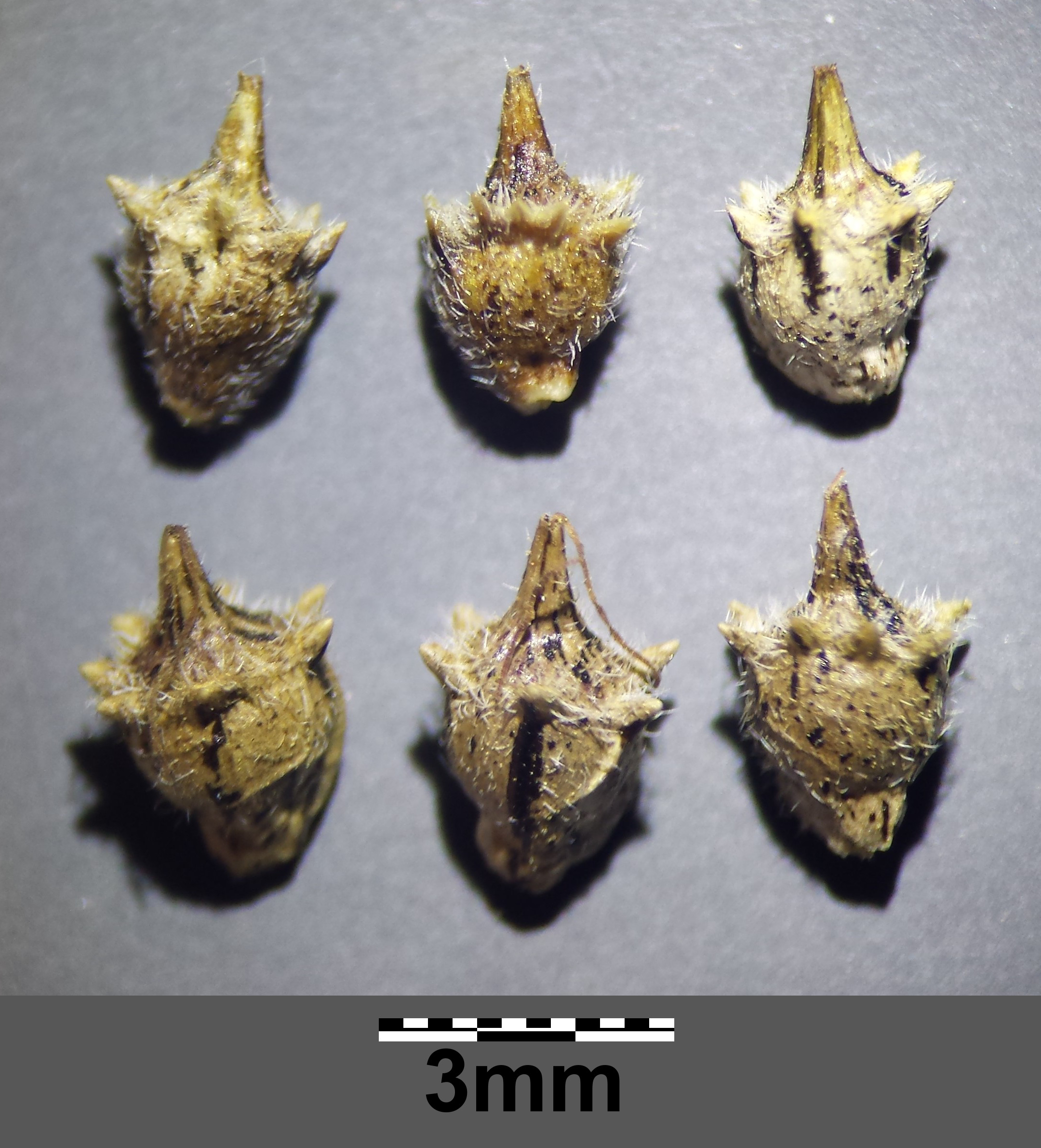 Flower heads with fruits Taxonym: Ambrosia artemisiifolia ss Fischer et al. EfÖLS 2008 ISBN 978-3-85474-187-9 Location: Floridsdorf rail station, Vienna-Floridsdorf - ca. 160 m a.s.l. Habitat: rail ruderal area